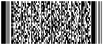 Sample of a PDF417 symbol encoding "PDF417 is a stacked linear barcode symbol format used in a variety of applications, primarily transport, identification cards, and inventory management." When printed at 200 DPI the symbol will be 1.75 inch x 0.76 inch. The symbol is encoded using Error Correction Level 5, with 6 Columns and 24 Rows (144 Codewords). It contains 80 Data Codewords and 64 Check Codewords.